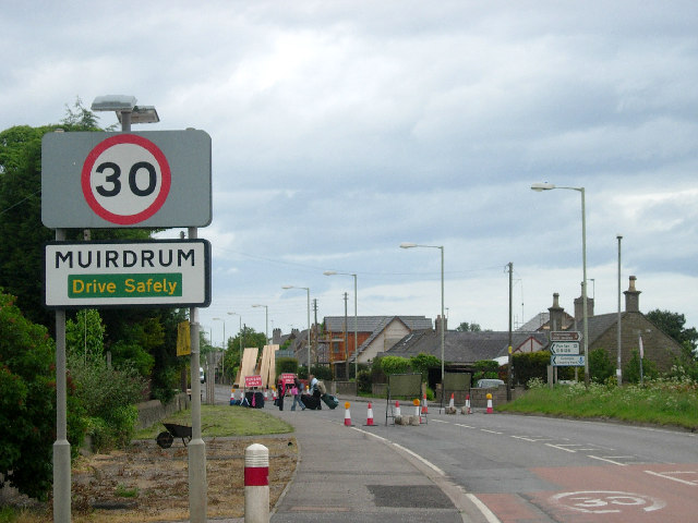 Muirdrum. The little village of Muirdrum used to straddle the main A92 (Dundee to Arbroath road). With the upgrading of the road to dual carriageway, the village is now bypassed and is enjoying much quieter times.